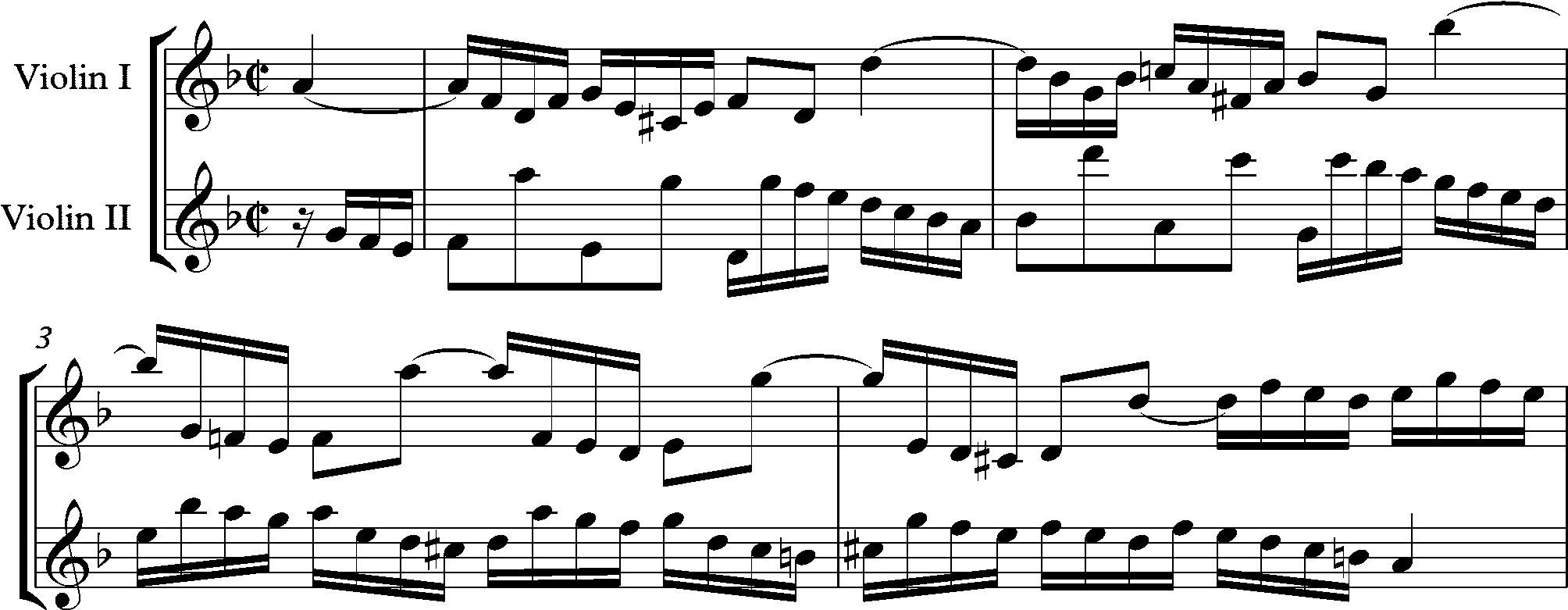 Bach Concerto for 2 violins in D minor, BWV 1043, first movement bars 26-9